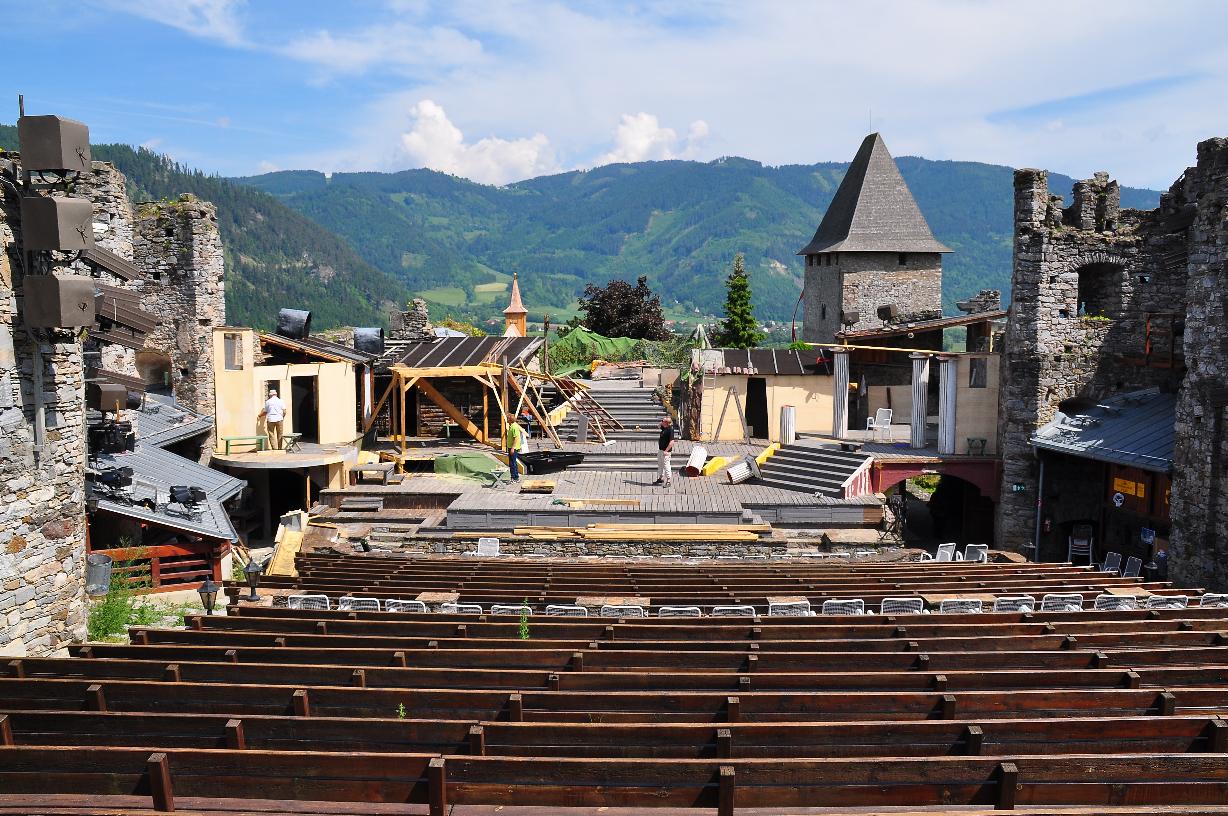 Open-air-stage in the castle ruin with keep in the background on Petersberg, municipality Friesach, district Sankt Veit an der Glan, Carinthia, Austria, EU